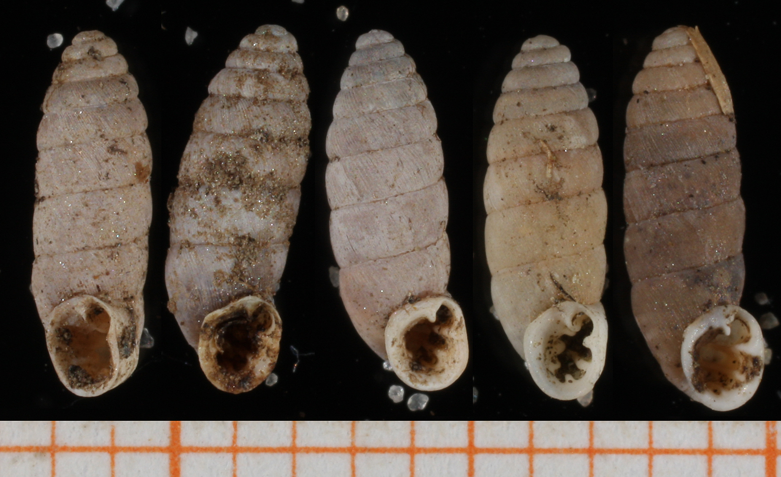 Abida pyrenaearia (Michaud, 1831), Chondrinidae, Pulmonata, Gastropoda, Locality: Andorra, La Massana